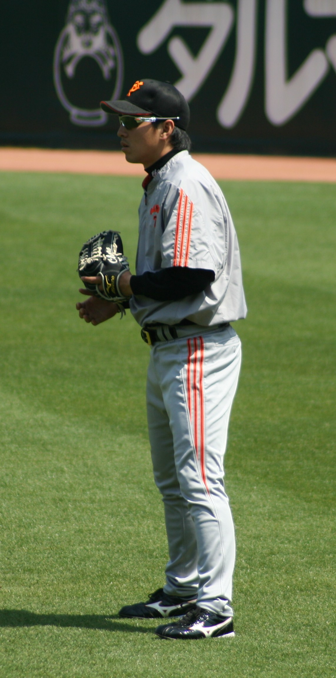 Hisayoshi Chono, outfielder of the Yomiuri Giants, at Mazda Stadium.